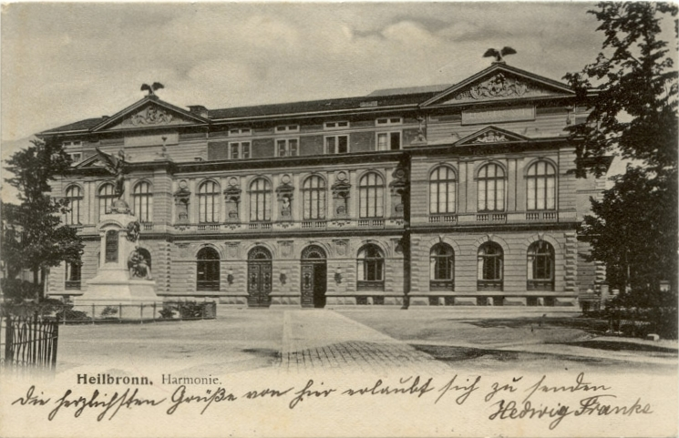 The old festival hall Harmonie in Heilbronn. Postcard